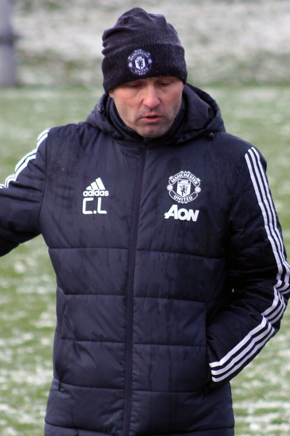 Colin Little of Manchester United after the U18 Premier League match against Liverpool at The Cliff, Salford, England on Saturday 9 December 2017.